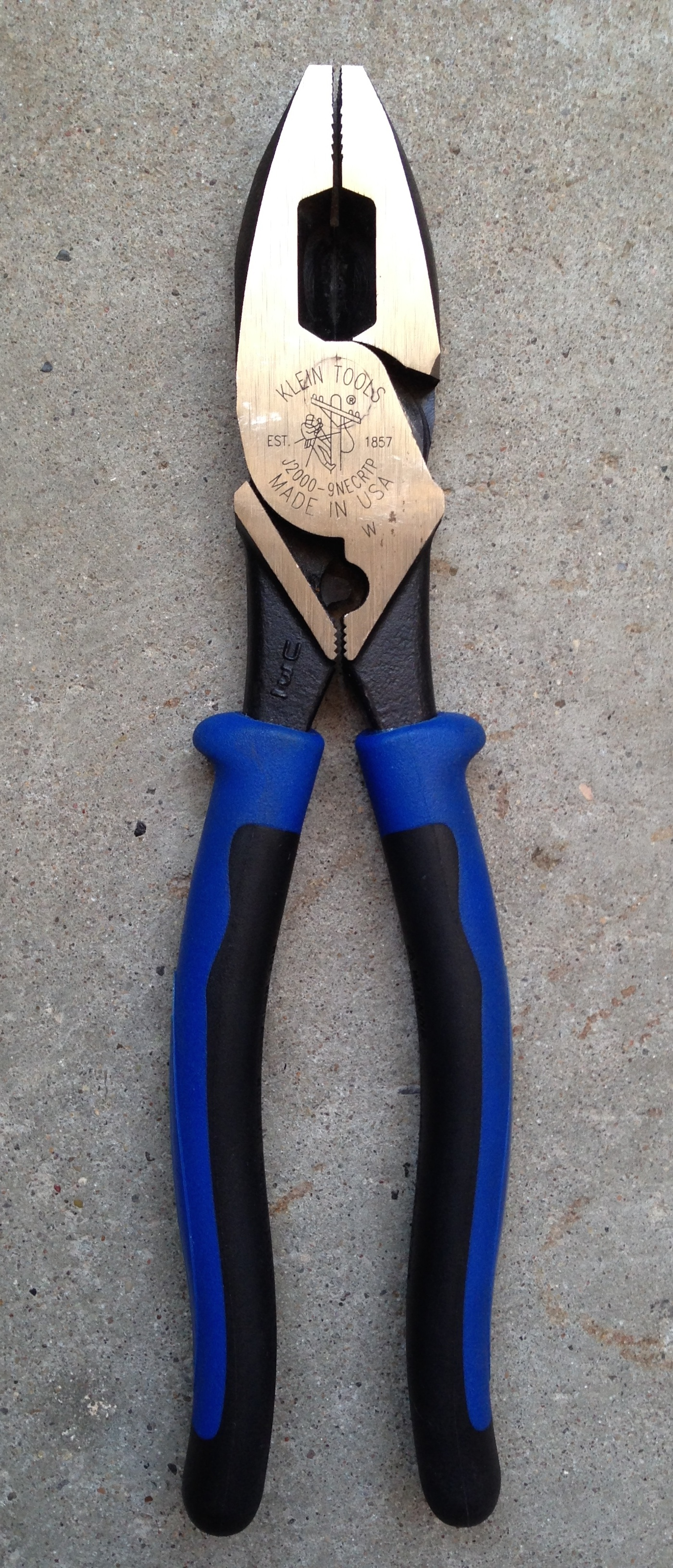 A pair of Klein Journeyman 9" lineman's pliers. These are often called "Kleins" or "nines." This pair has a connector crimper and a channel for pulling steel fish tape.